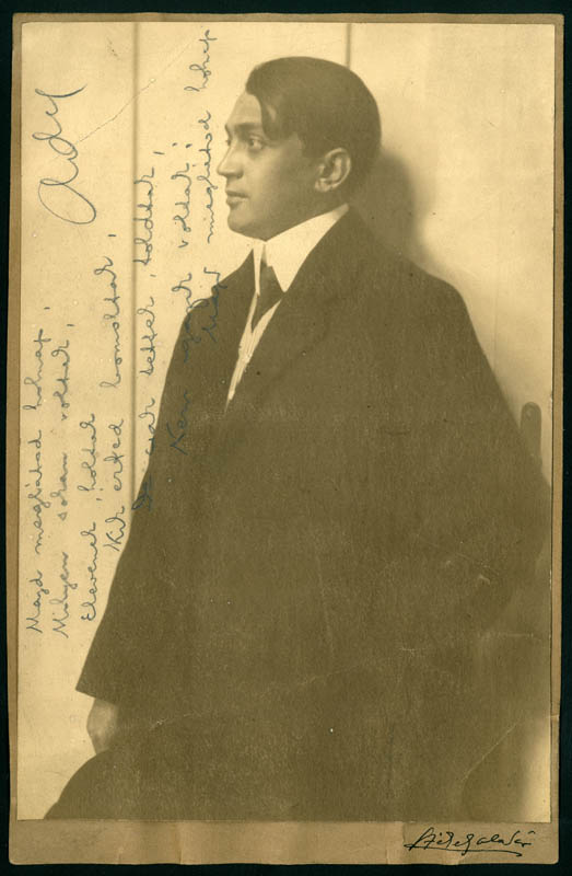 Dedicated portrait of Endre Ady. Photograph by Aladár Székely National Széchényi Library LocationBudapestCoordinates47° 29′ 53.34″ N, 19° 02′ 14.4″ E Established1802Web page control : Q1063819 VIAF: 157919295 ISNI: 0000 0001 1781 8798 ULAN: 500306655 LCCN: n79076057 NLA: 35722893 WorldCat institution QS:P195,Q1063819